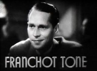 Cropped screenshot of Bette Davis from the trailer for the film Dangerous.